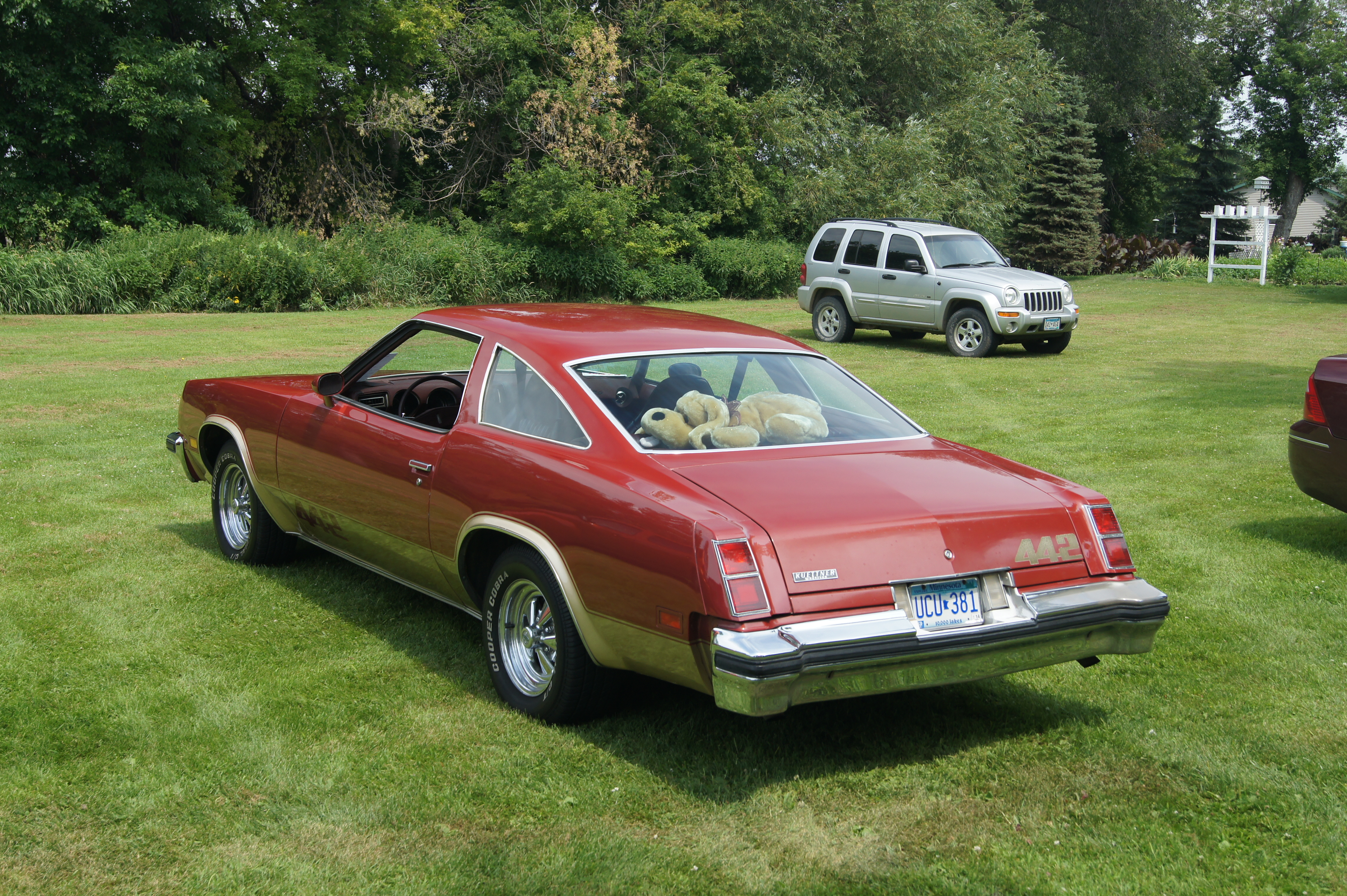 Lake Minnewaska Classics Car Show August 2, 2014 Starbuck, Minnesota Thousands more of my car pictures available by clicking link below